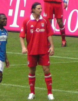 Claudio Pizarro (FC Bayern München) in a game against Arminia Bielefeld